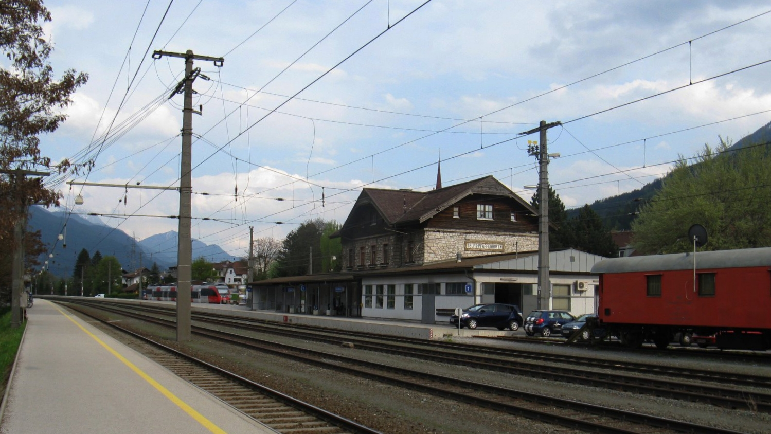 Telfs-Pfaffenhofen railway station of Arlberg railway